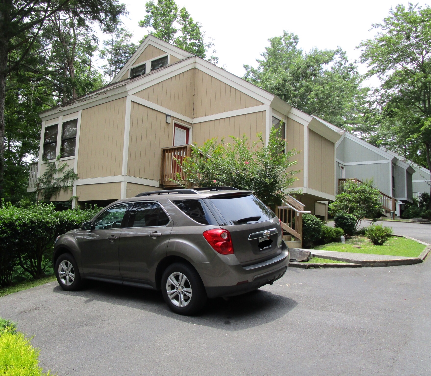 Chalets located at Bluegreen Vacations’ MountainLoft location in Gatlinburg, Tennessee